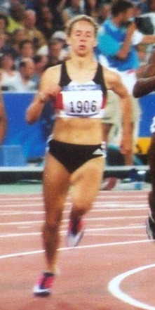 Claudia Gesell at the 2000 Summer Olympics